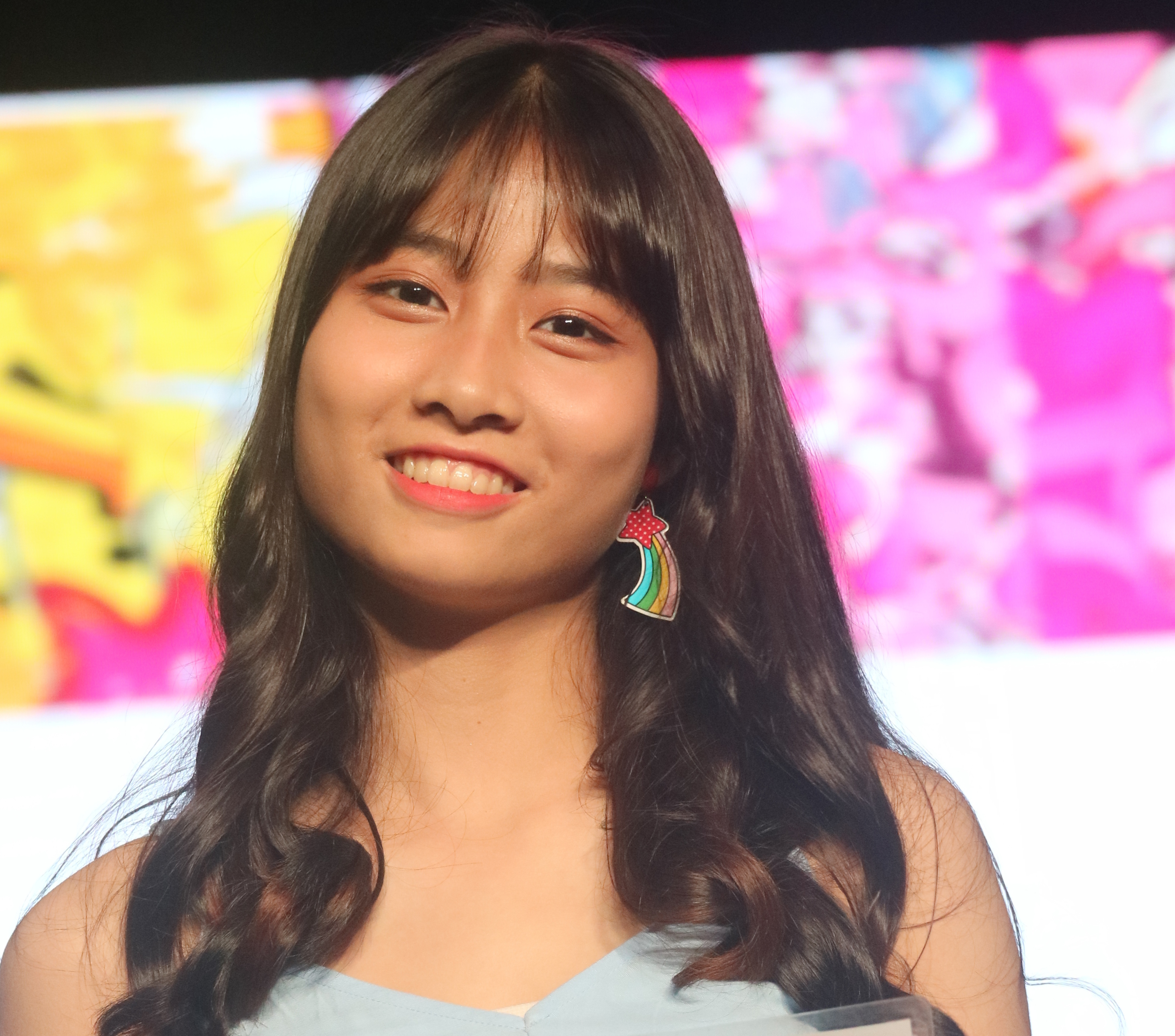 Mutiara Azzahra Umandana at Joy Kick Tears Surabaya HSF